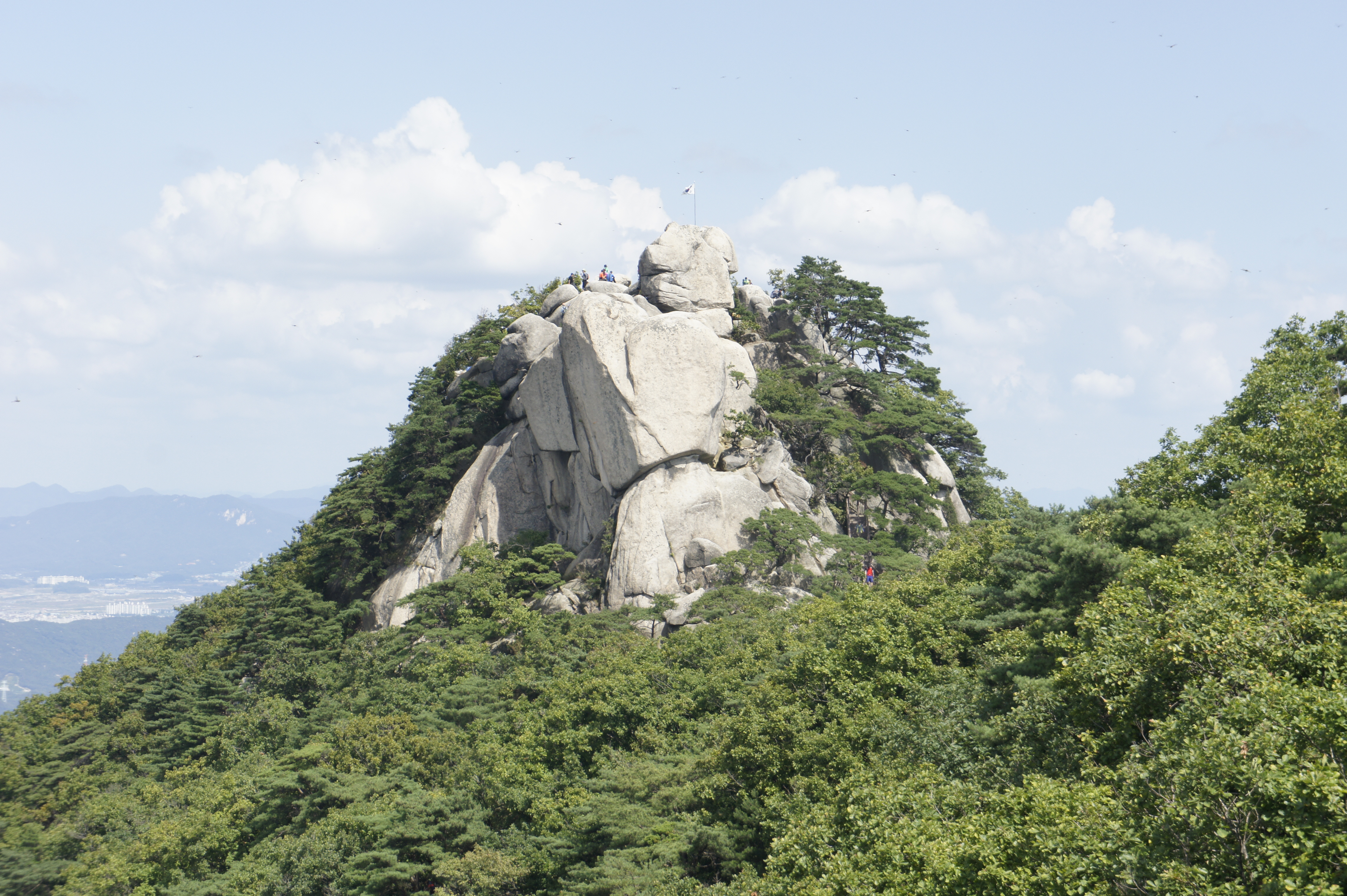 Suracksan summit as seen from a nearby peak.